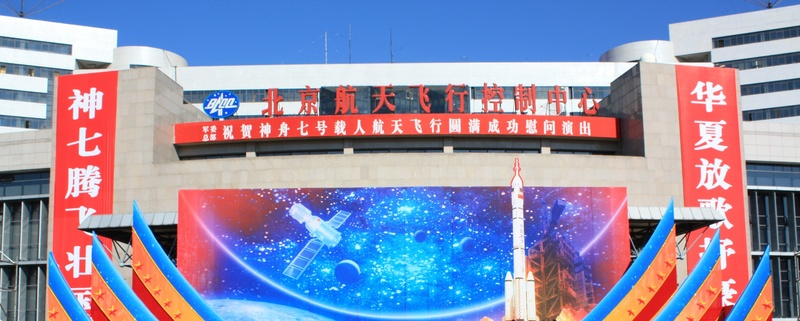 The main facility of Beijing Aerospace Command and Control Center (BACC) after the Shenzhou-7 mission. The makeshift stage was to be used for ceremonial purposes. The logo and letters in Chinese reads: BACC (logo) Beijing Aerospace Flight and Control Center (its new name from 2006 onwards).